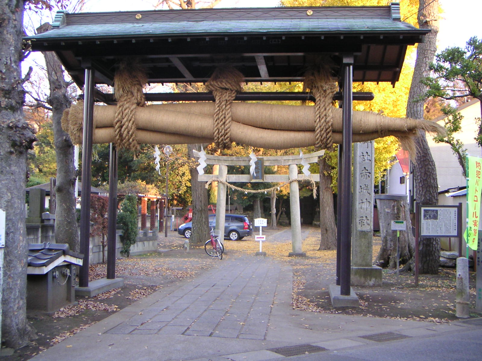 Sacred straw rope at Akagi Shrine in Nagareyama,Chiba